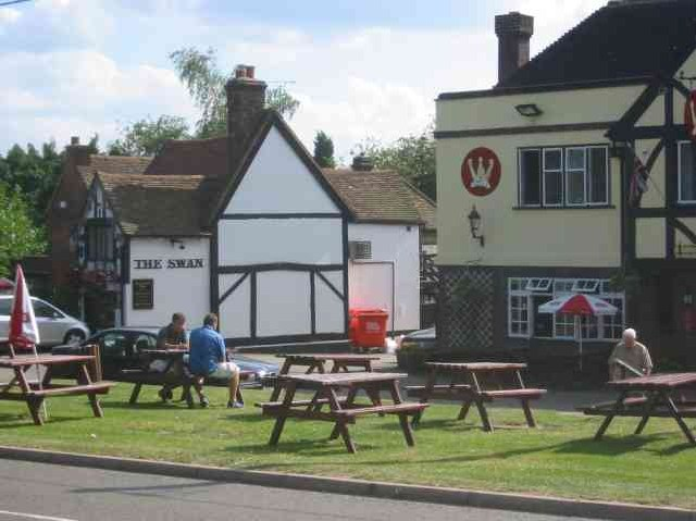 Two pubs opposite the common and the village sign Ley Hill. Sitting at the tables is not relaxing as there is a regular stream of traffic at the junction.